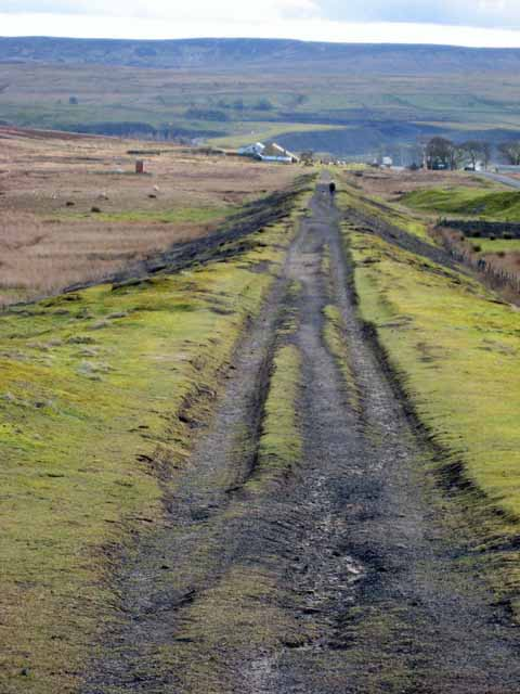 Weatherhill Incline The Weatherhill Incline was the uppermost of two inclines which raised trains from Stanhope and the Crawleyside Quarries up to Park Head to join the main line of the Stanhope and Tyne Railway . The remains of the Weatherhill Engine which raised trains 90 metres up this incline can still be seen at NY9942. The remains of the Crawley engine can be seen in the middle distance NY9940. The moors on the south side of Weardale appear on the horizon. The incline now serves as a cycleway and footpath parallel to the main B6278.